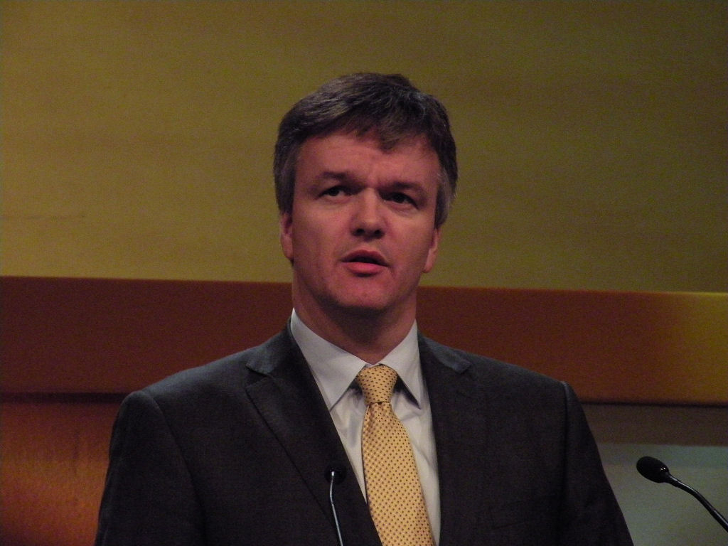 Michael Moore MP addressing the 2011 Liberal Democrats autumn conference in the International Convention Centre, Birmingham